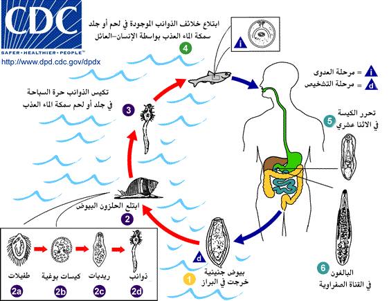 Clonorchiasis